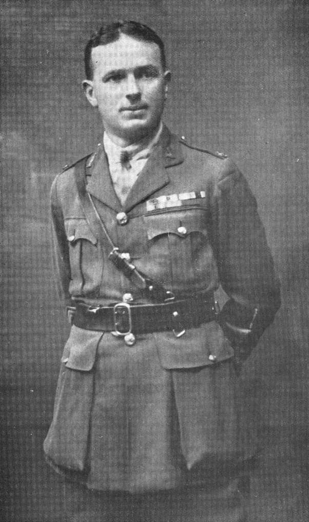 Lieutenant Colonel James Hargest, 1918. From "Official History of the Otago Regiment, N.Z.E.F. in the Great War 1914-1918", published 1921.